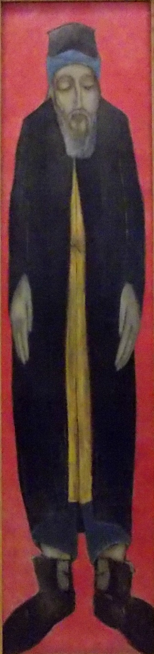 Leventis Gallery, Nicosia, Cyprus. George Polyviou Georghiou - The Village Priest. Oil on wood.